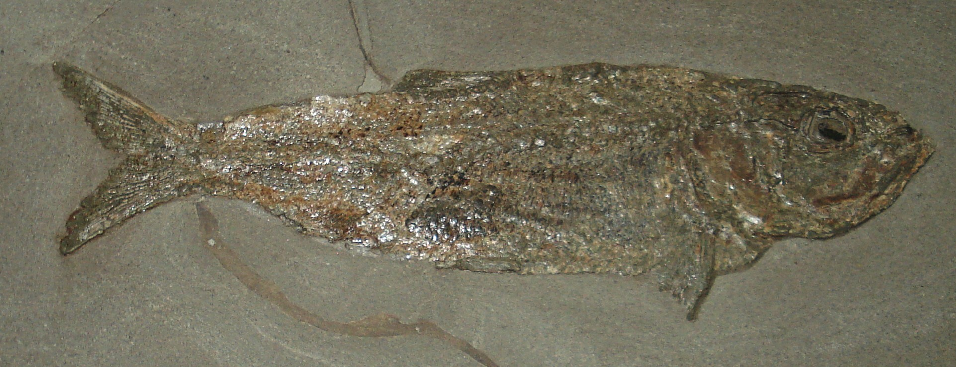 fossil of Dorsetichthys bechei Syn. Pholidophorus bechei